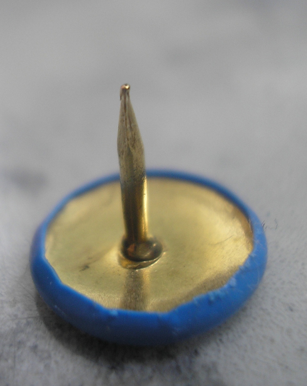 Drawing pin